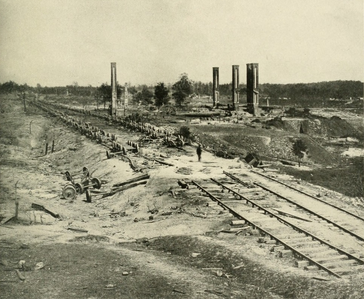 Confederate General John B. Hood ordered this destruction of railway and rolling stock in Atlanta to prevent resources from falling into the hands of Sherman's Union troops.